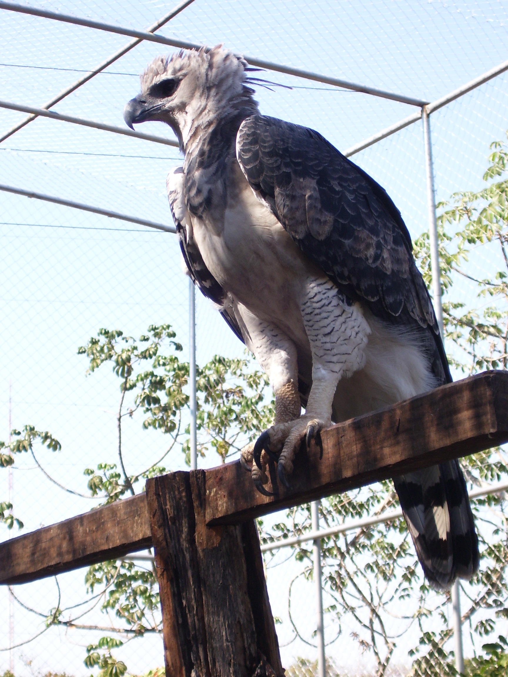 American Harpy Eagle (Harpia harpyja), in the zoo of Federal University of Mato Grosso, Cuiabá, Brazil.